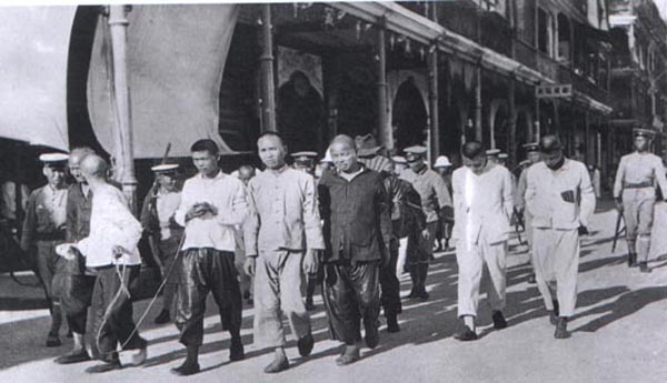 Communists being rounded up in one of the purges.